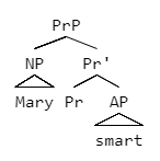 Structure of a small clause shown as a projection from a functional category, proposed by Bailyn 1995 and others